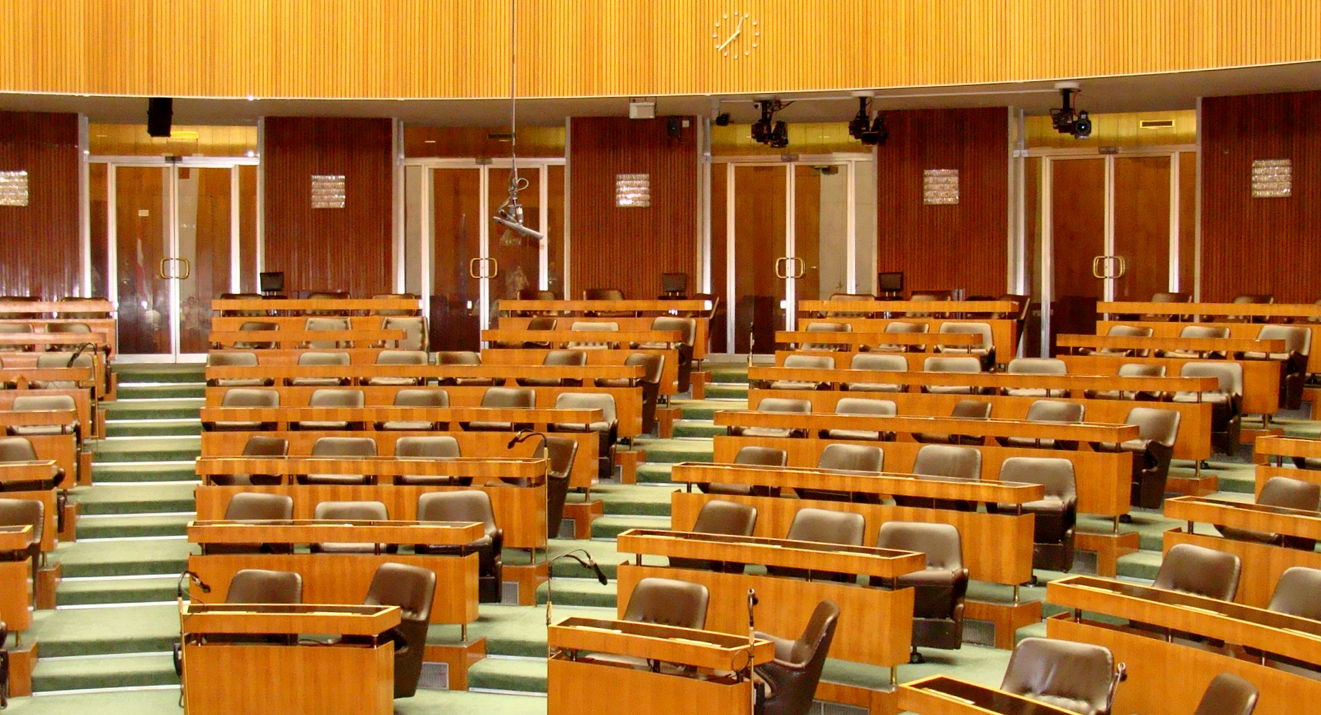 The Assembly of the National Council of the Parliament of the Federal Republic of Austria